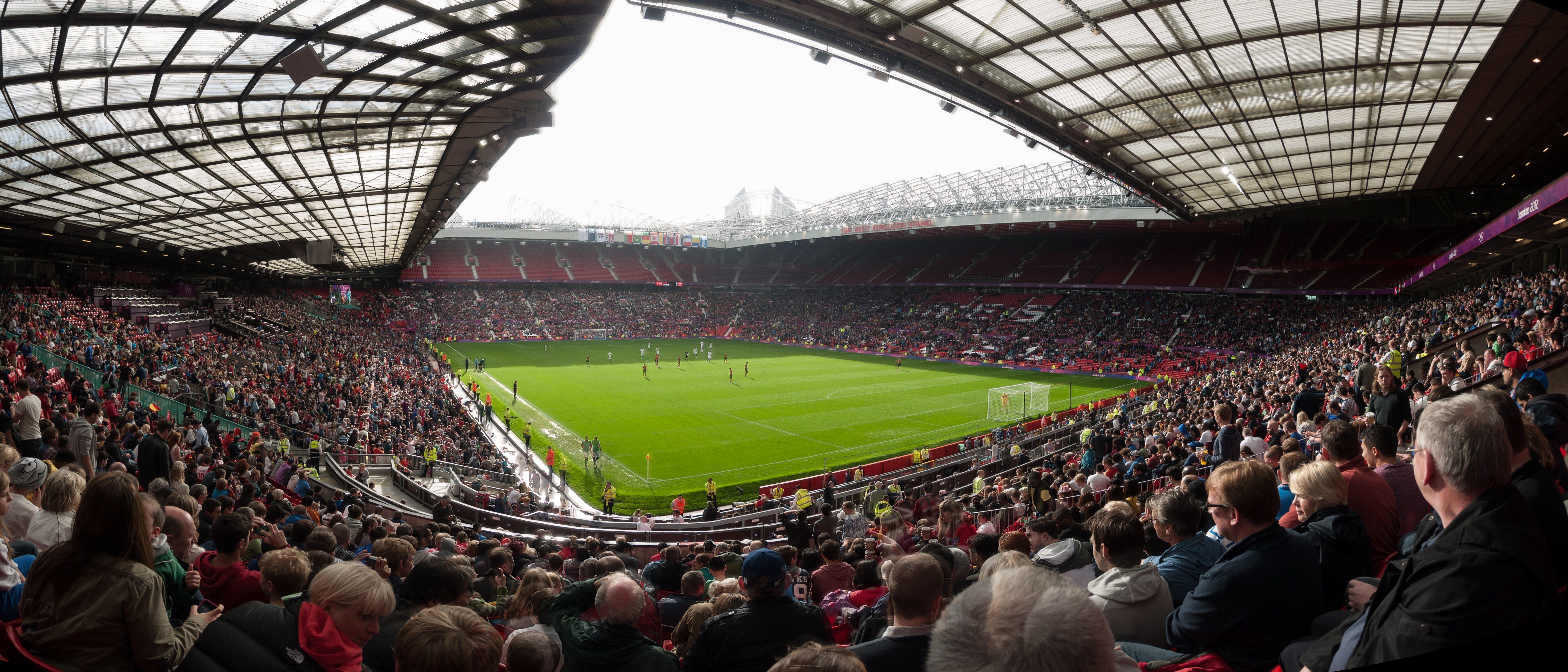 Panorama of Old Trafford stadium, taken during an Olympic match between Spain and Morocco.